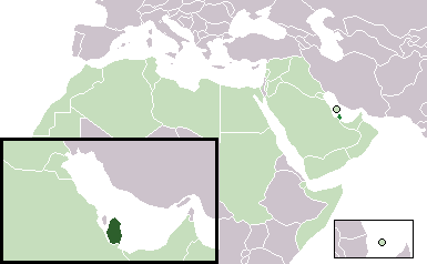 Map of Qatar, Arab States.